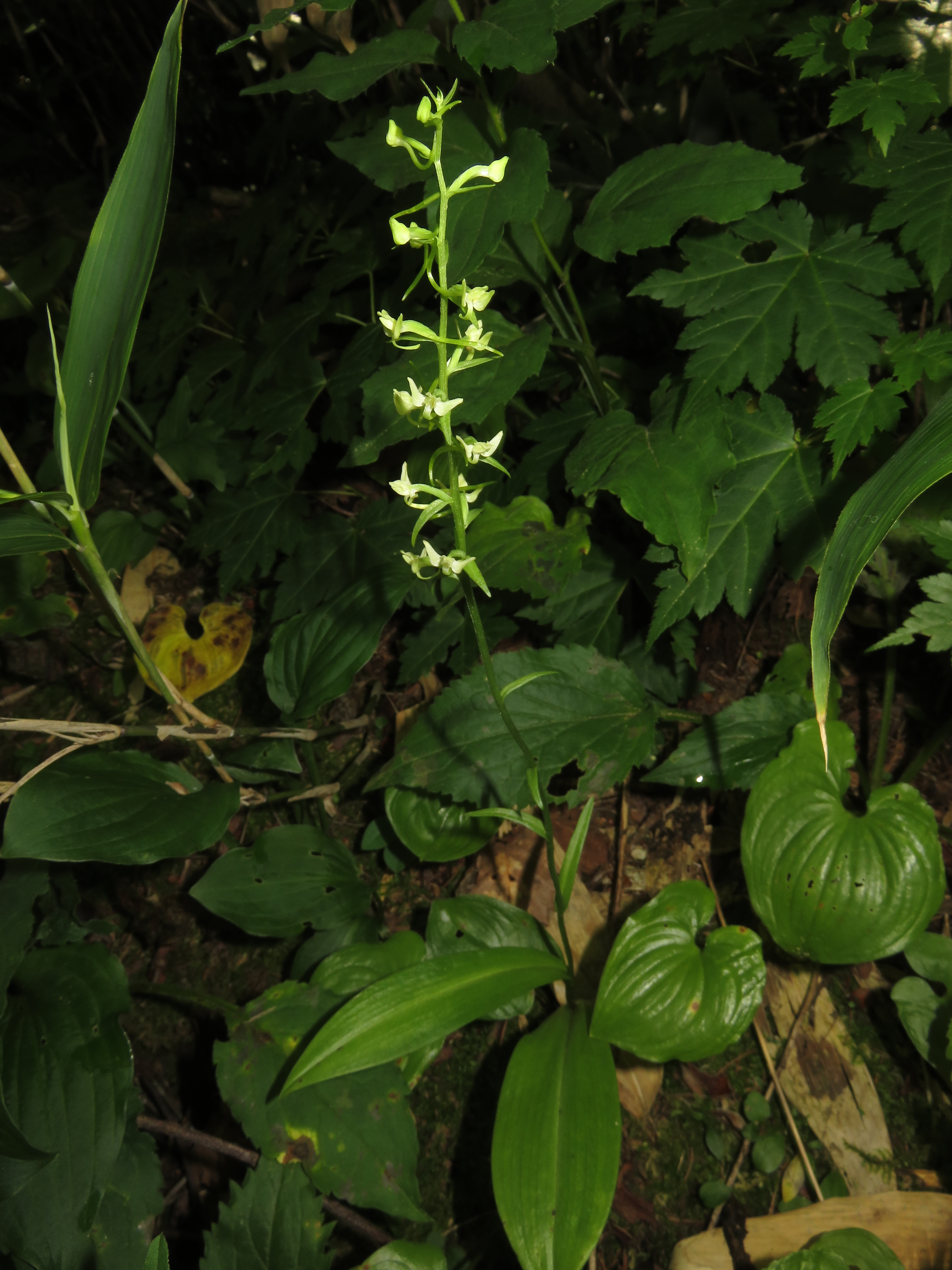 Platanthera sachalinensis, Mount Adatara, Fukushima pref., Japan